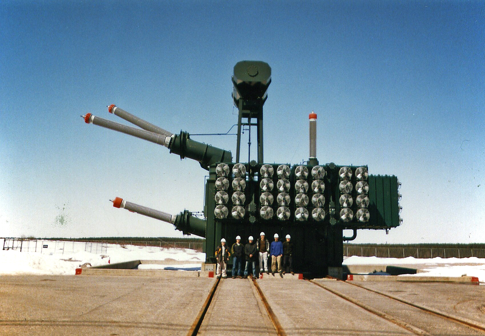 A single-phase, three-winding converter transformer of the La Grande complex, in Baie-James, Québec, Canada. The long valve-winding bushings, which project through the wall of the valve hall, are shown on the left. The line-winding bushing projects vertically upwards at centre-right.